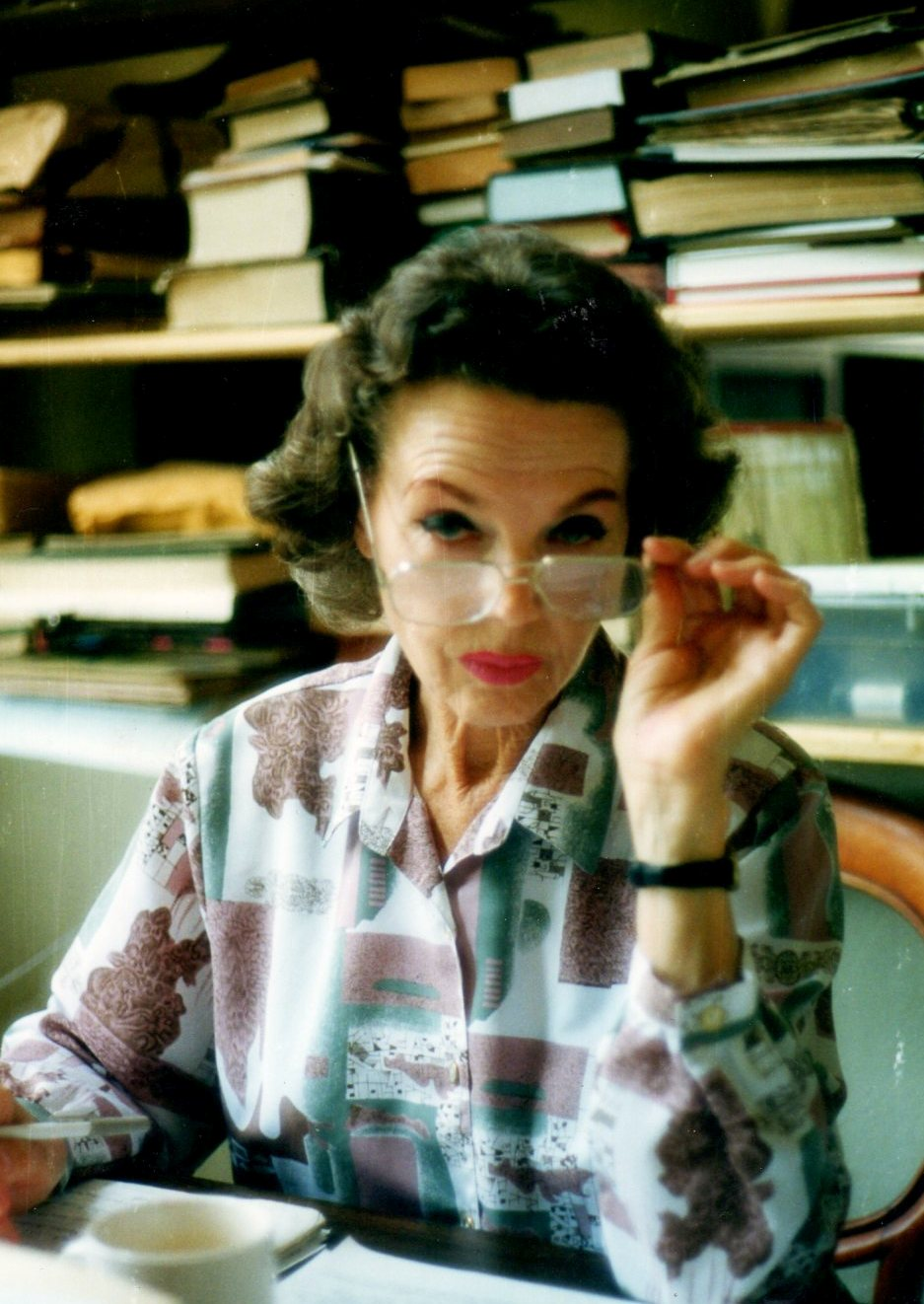 Isabel del Puerto, writter